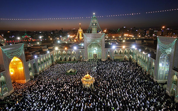 Imam Reza shrine - 18 August 2007 / 3&4 Sha'ban 1428 A.H